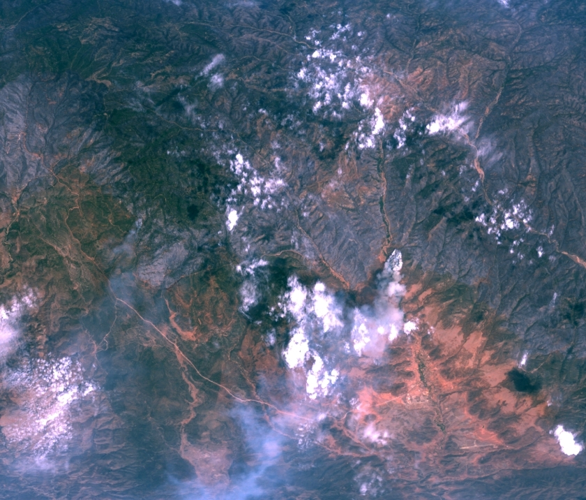 Rodeo-Chediski fire in Arizona from space